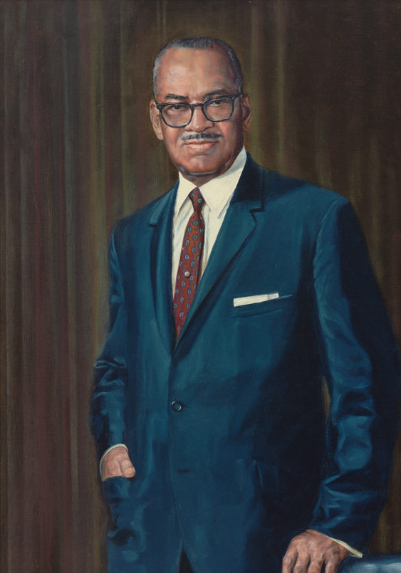 William L. Dawson (politician), member of the United States House of Representatives.